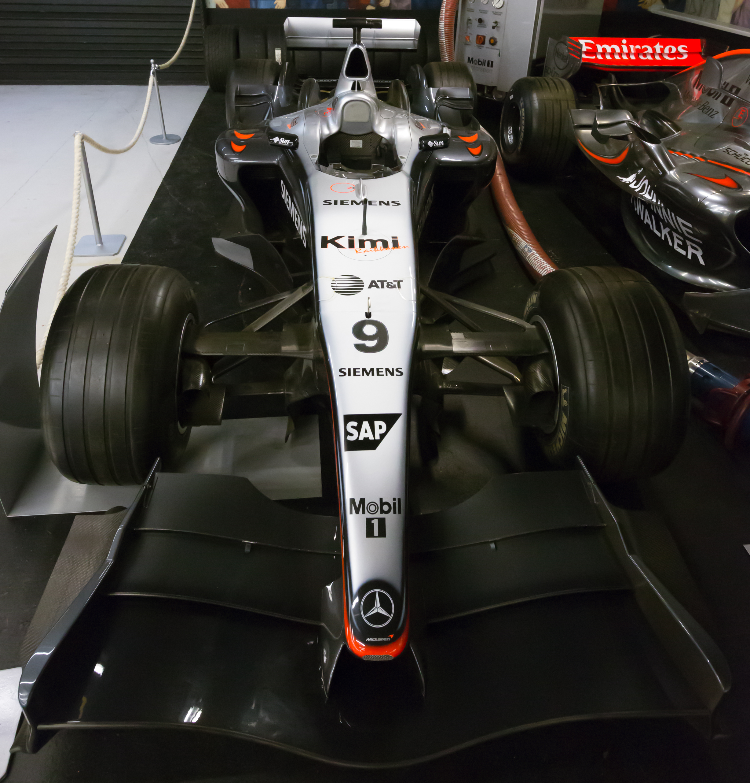 2004 McLaren MP4-19b